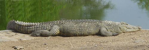 Crocodile lounging in the sun by the waters of Manyuchi Dam